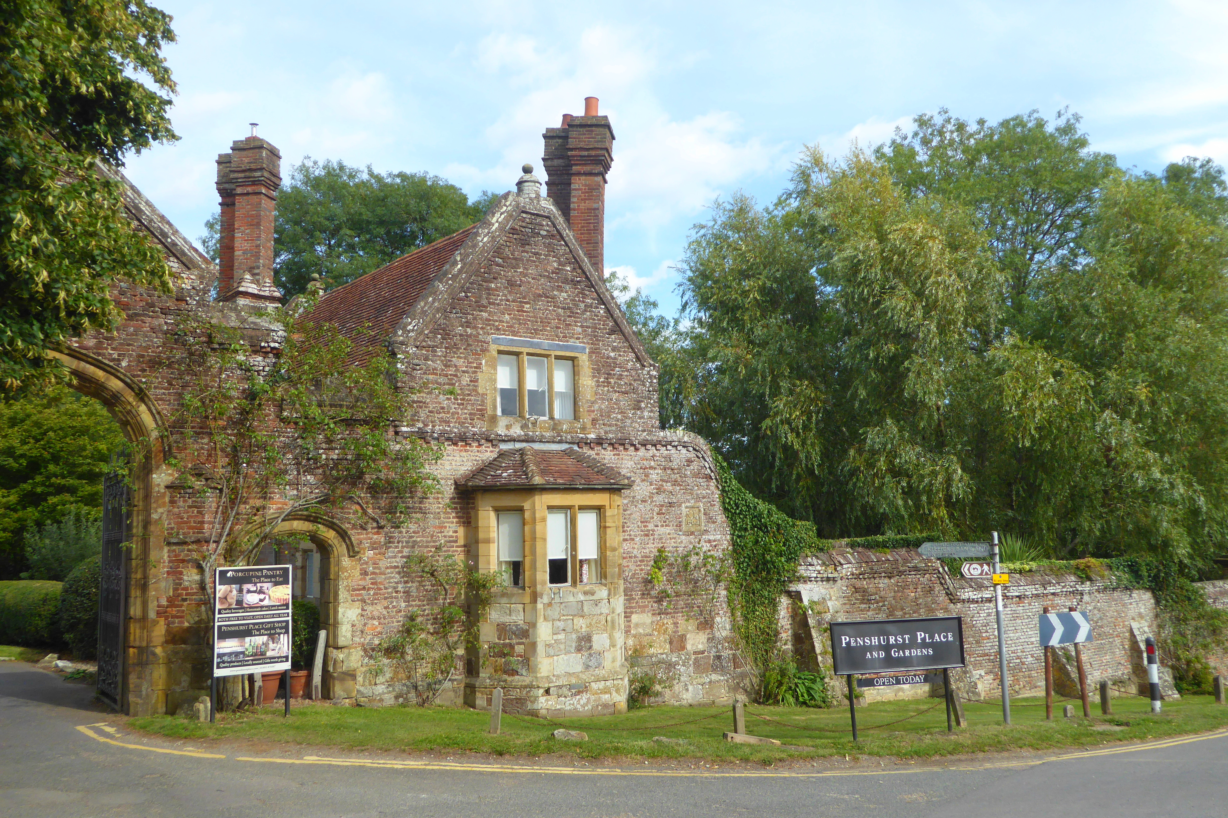 The Gatehouse of Penshurst Place in Penshurst, Kent. A Grade II listed structure.